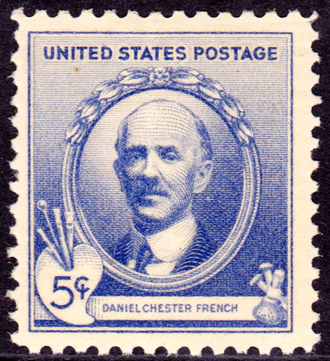 US Postage Stamp, Daniel_Chester_French_1940_Issue-5c